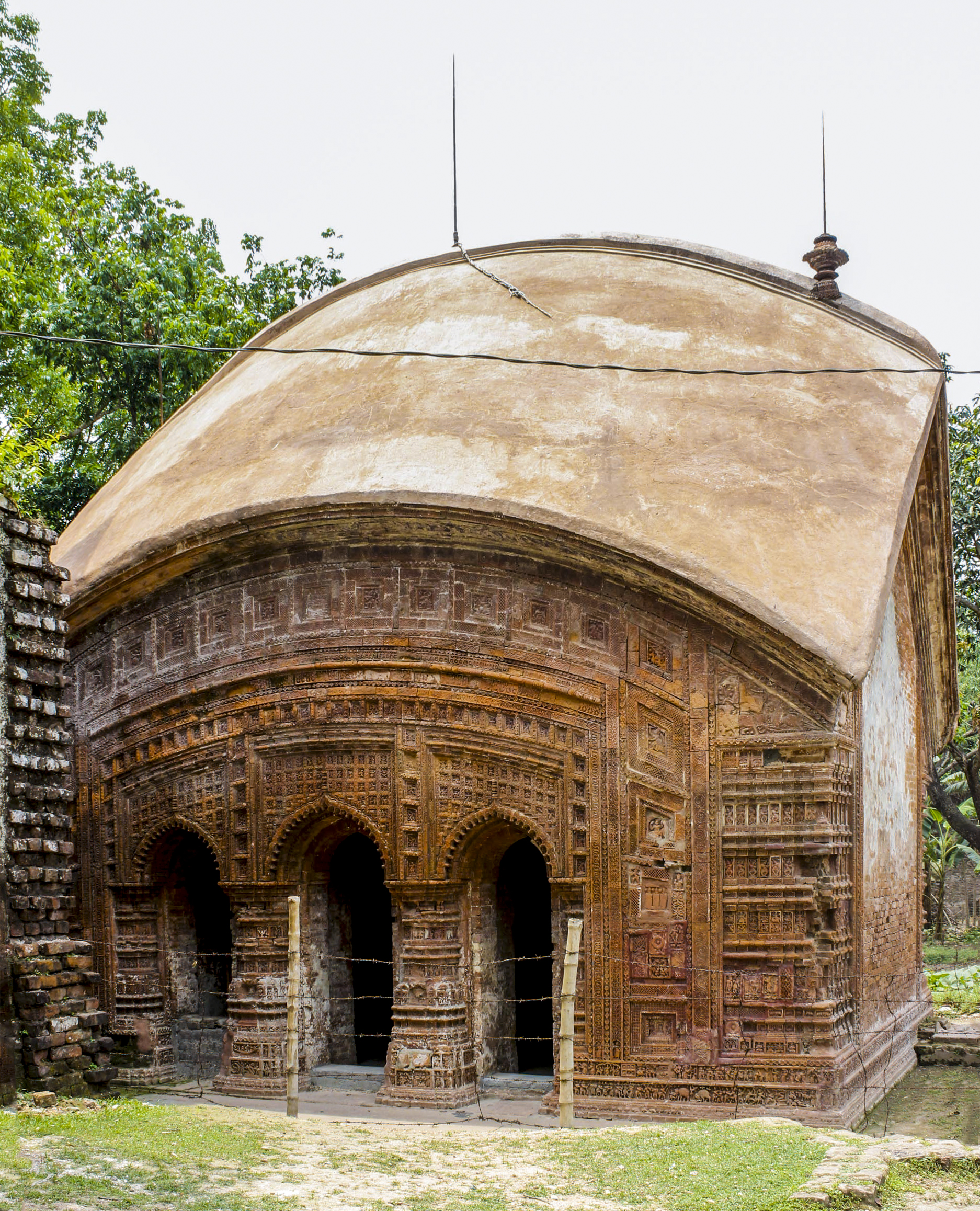 Wikipedia Photowalk, Rajshahi